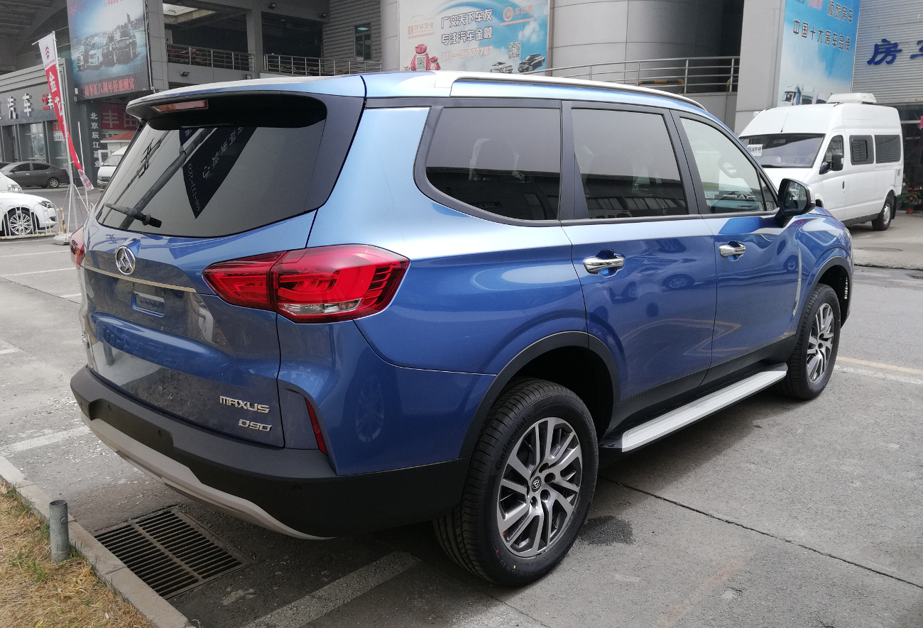 Maxus D90 photographed in Beijing, China.